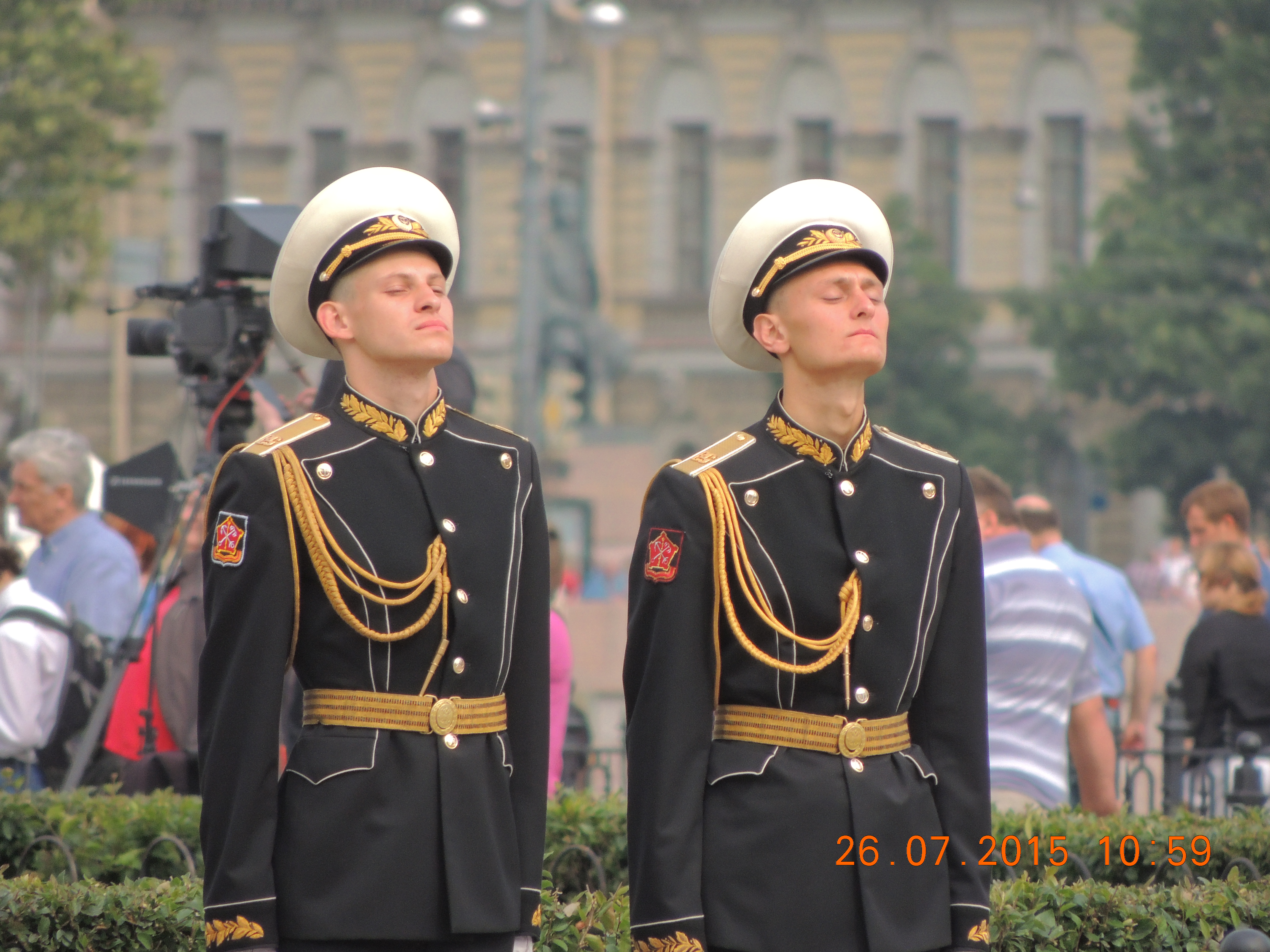 guard of honor Day of the Navy